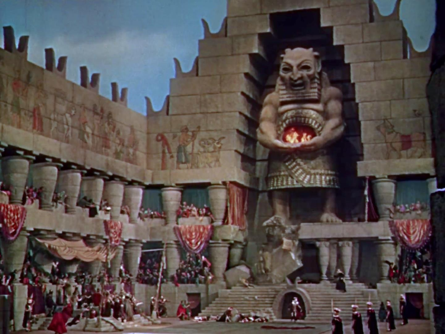 Screenshot from the trailer for the film Samson and Delilah (1949).